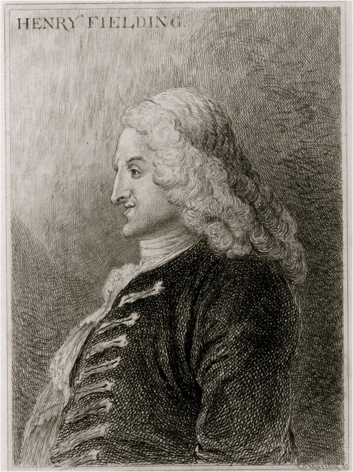 Henry Fielding circa 1743 etching from Jonathan Wild the Great.